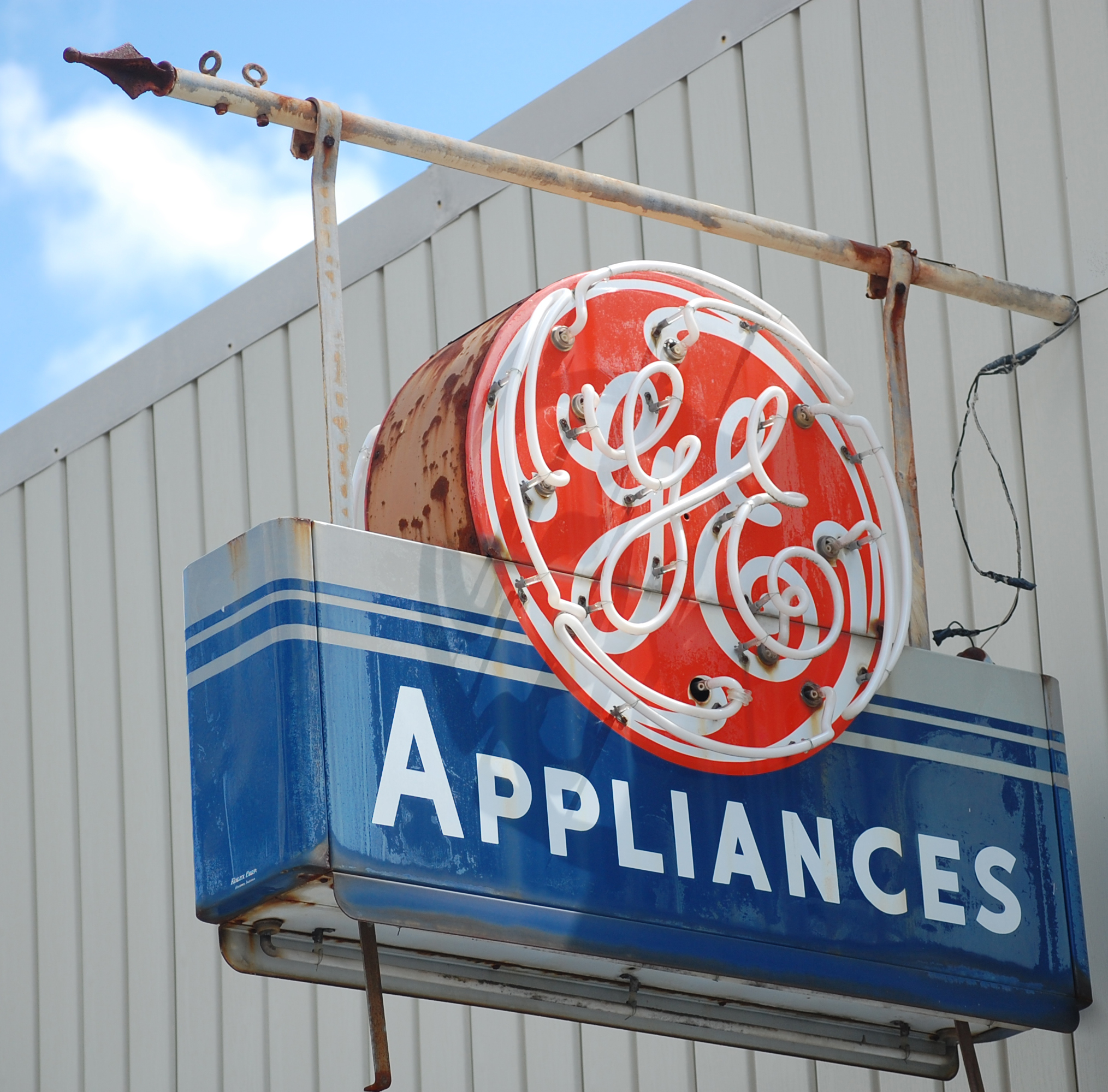 Classic General Electric neon sign, in Willacoochee.